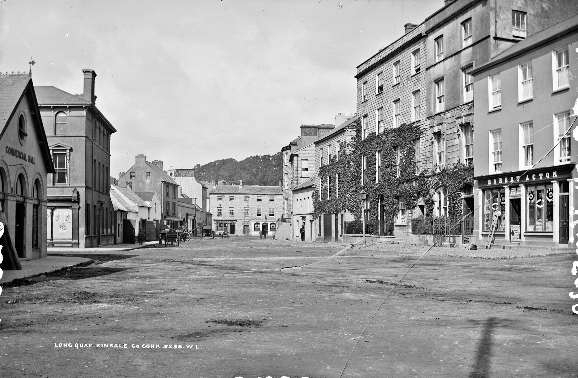 We are off to the Rebel County today. A fine shot of Kinsale from the Lawrence Collection. It is a shame about the crack in the plate but I do not think that it takes too much away from the photo. We have a little surprise for you all tomorrow, watch this space! Photographer: Robert French Collection: Lawrence Photograph Collection Date: Catalogue range c.1865-1914. Certainly before 1905. Likely c.1900 (commercial hall). Possibly c.1902/1903 NLI Ref: L_CAB_05238 You can also view this image, and many thousands of others, on the NLI’s catalogue at